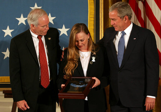 President George W. Bush stands with Dan and Maureen Murphy, parents of Lt. Michael P. Murphy, after the Navy SEAL was honored posthumously with the Medal of Honor during ceremonies Monday, Oct. 22, 2007, in the East Room of the White House. White House photo by Joyce N. Boghosian